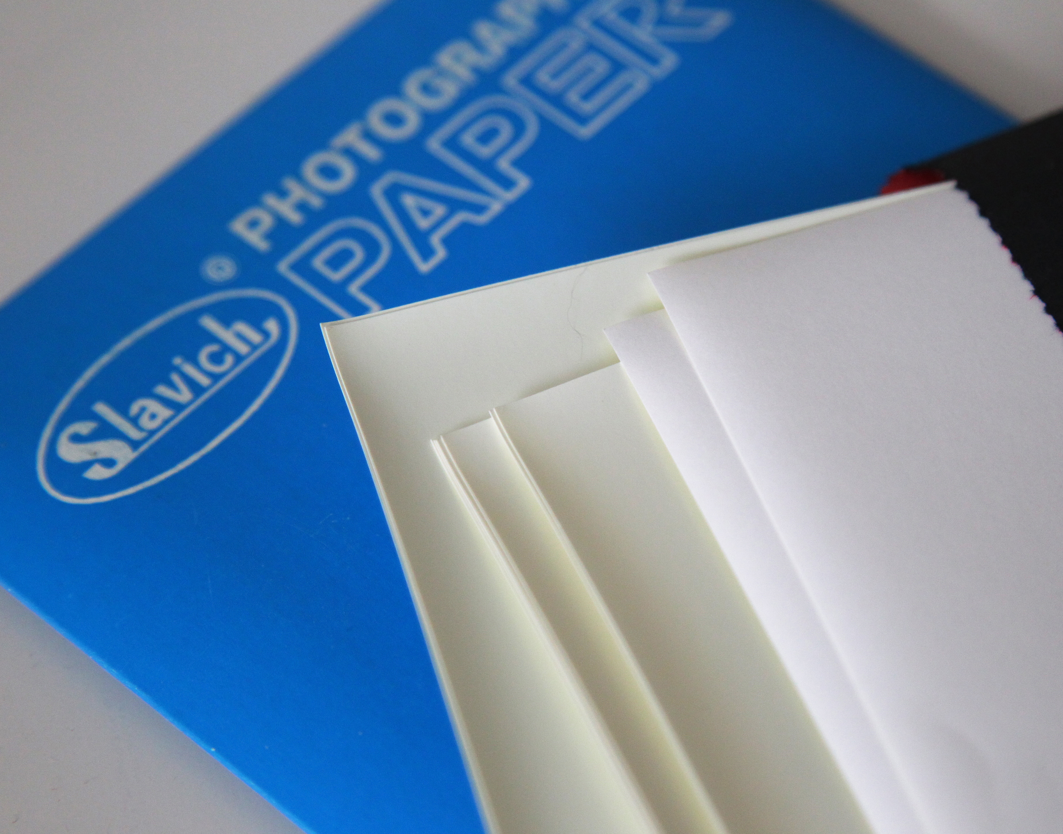 Pack of Soviet Photographic paper 'Unibrom-160'.